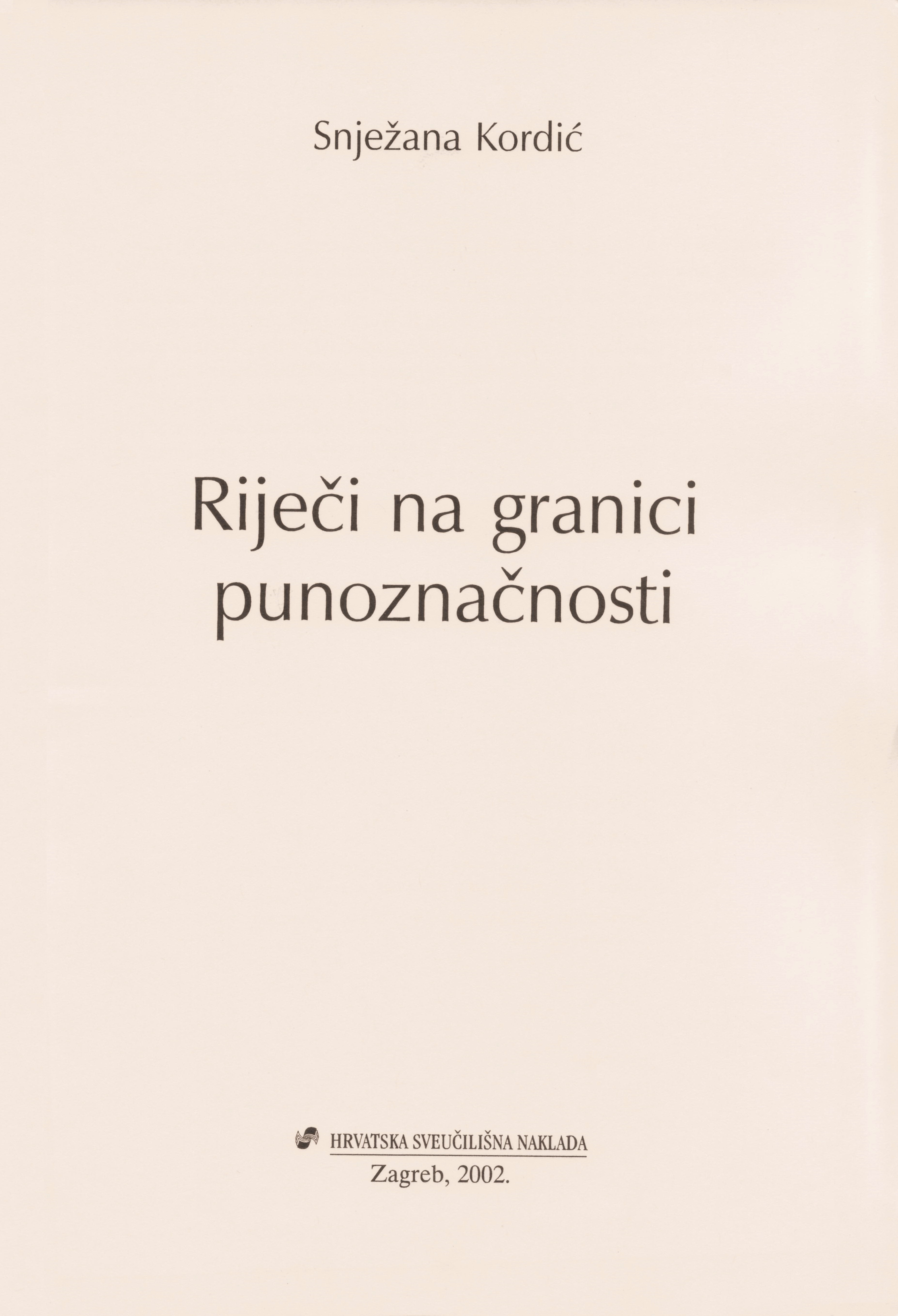 Title page of Snježana Kordić's Riječi na granici punoznačnosti